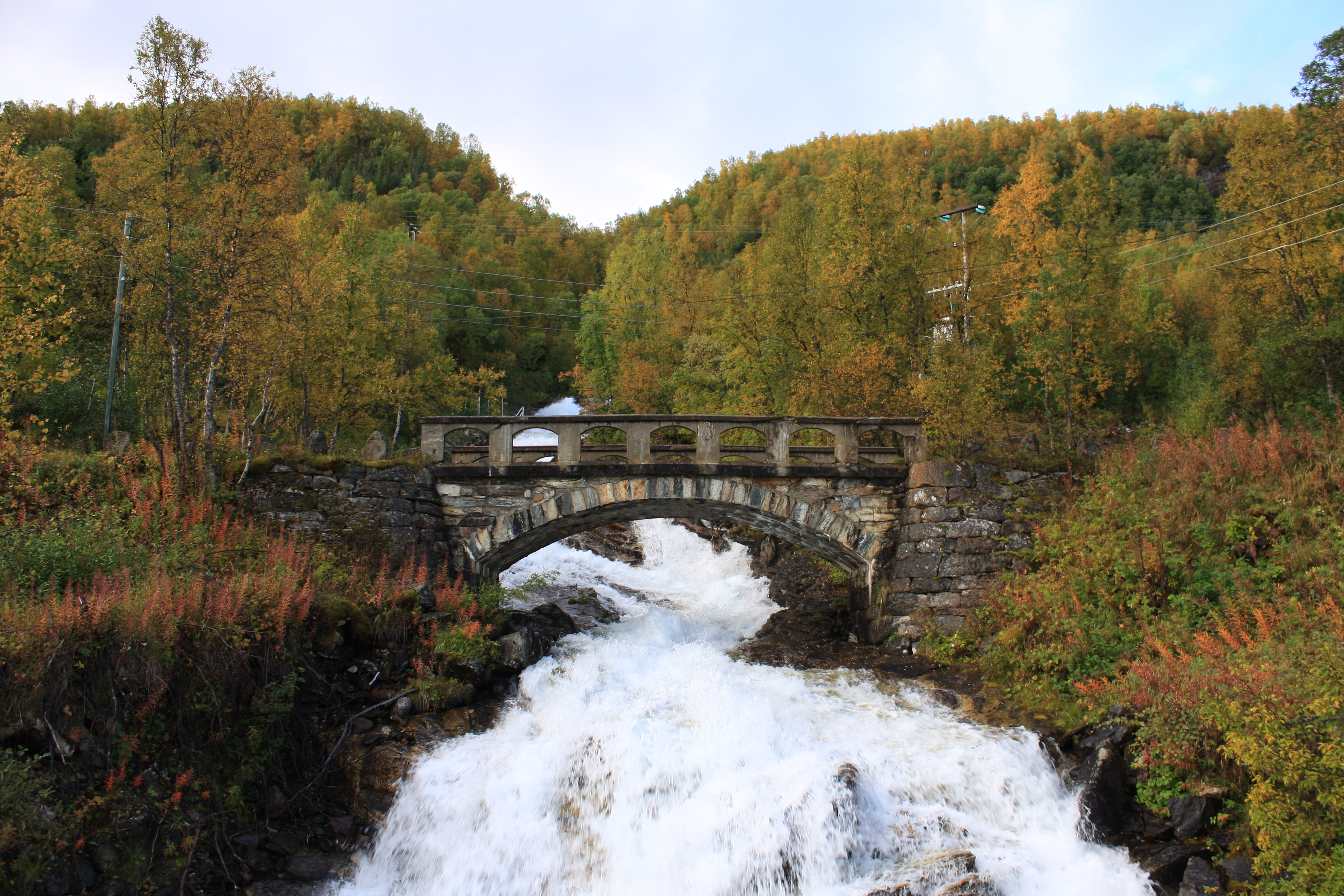 Kalvebakken bru (bridge) seen form the south. The bridge is outside of Tromsø, Norway.